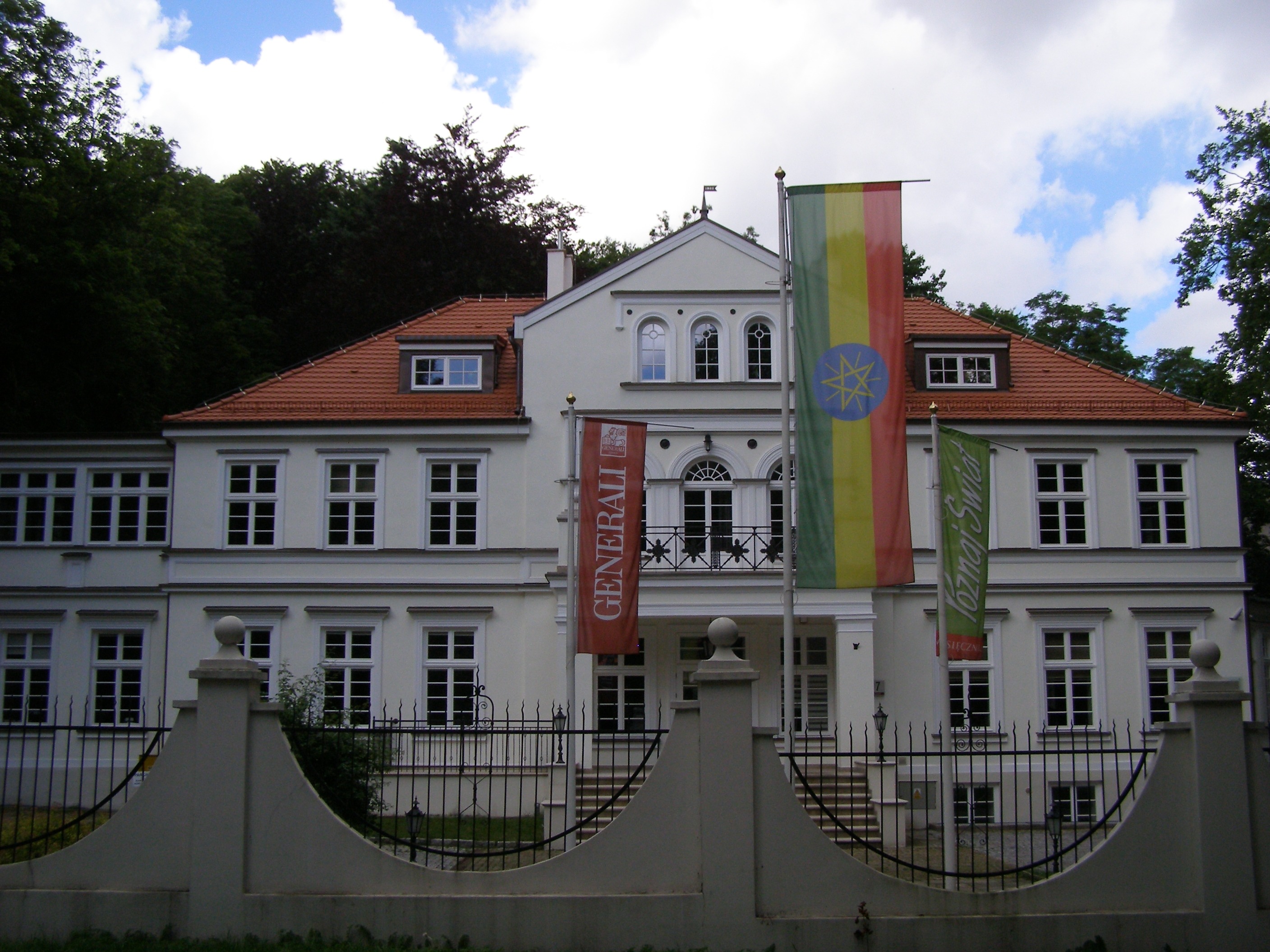 Gdańsk - villa at 17 Jaśkowa Dolina, seat of the Honorary Consul of the Federal Democratic Republic of Ethiopia and the editorial office of Poznaj Świat monthly